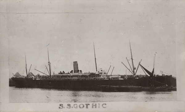 SS Gothic